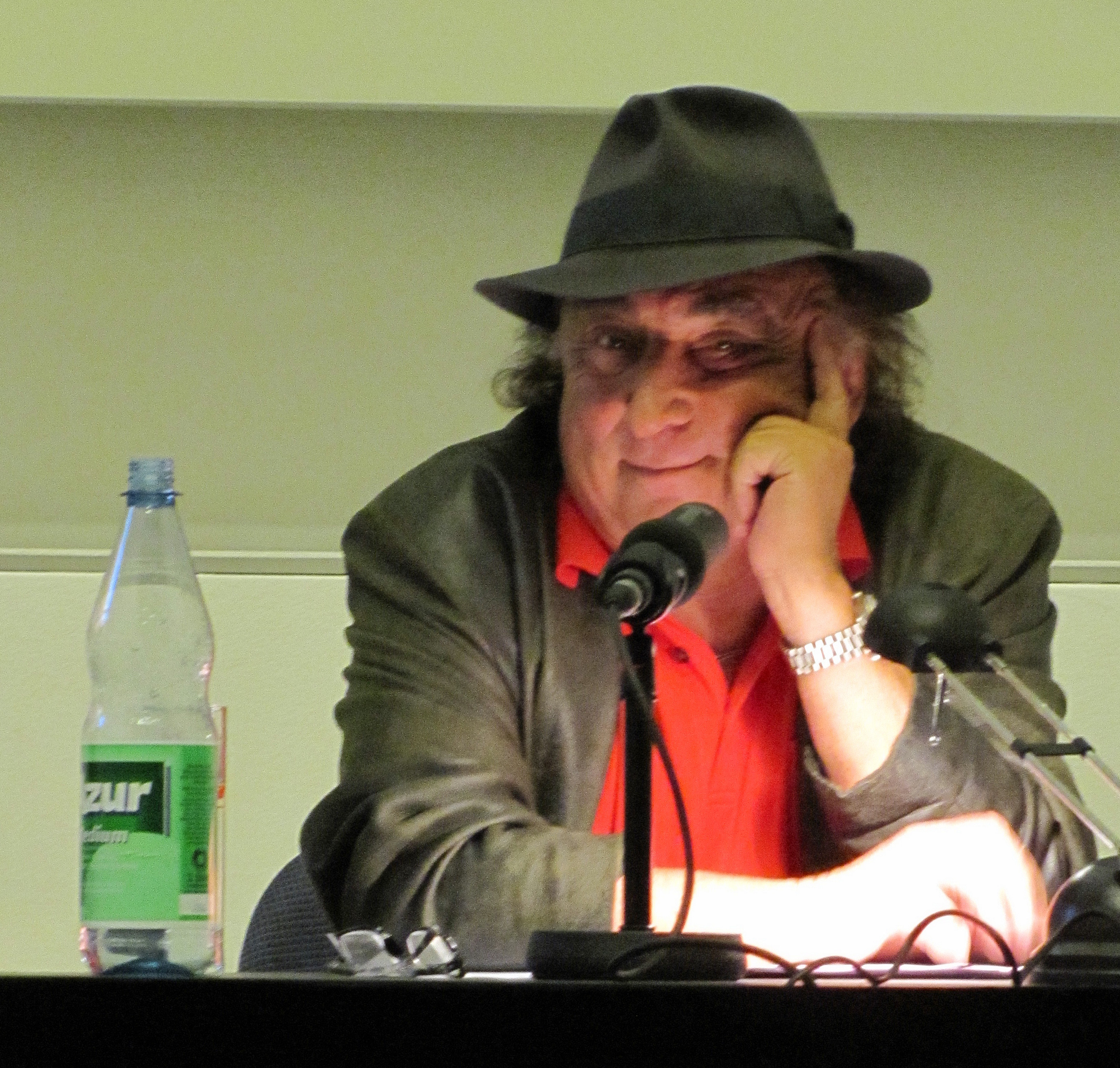 Peter Zingler, German author, 2010 in Frankfurt am Main, Germany.